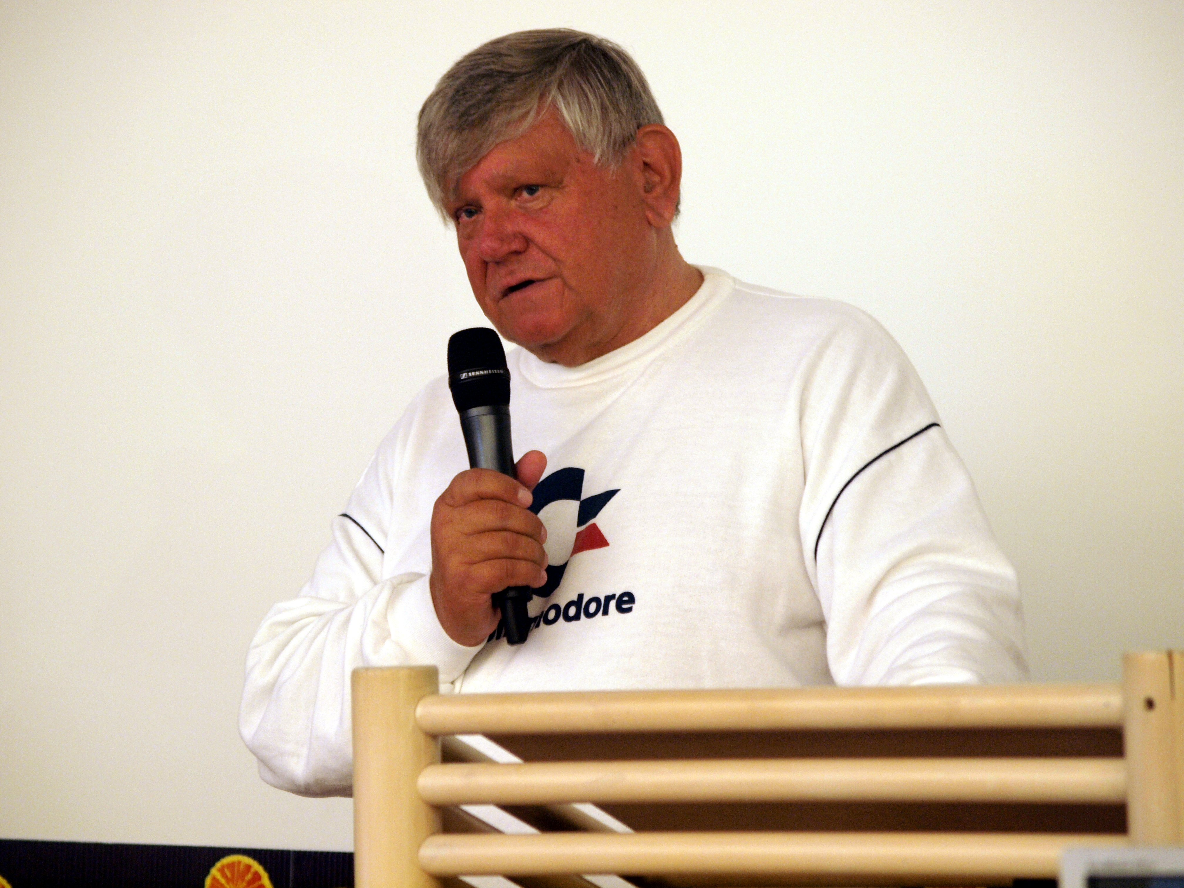 Petro Tyschtschenko being interviewed at the SAKU 2014 Amiga user club meeting in Tampere, Finland. Uploaded with permission from Tyschtschenko and the event organisers.